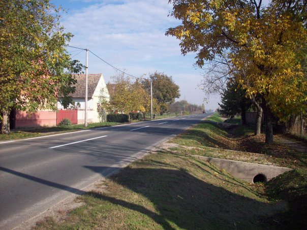 St. Petka Church in Banovci-Nijemci, Croatia